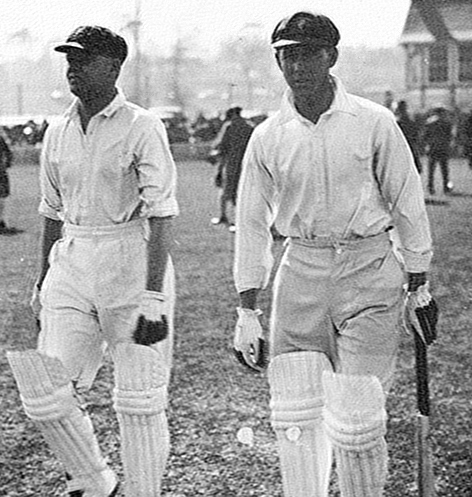 Archie Jackson, Australian cricketer